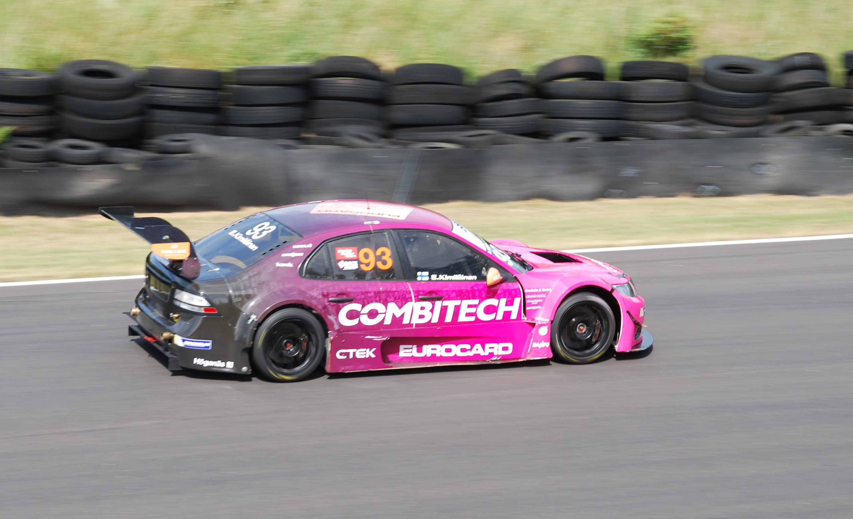 Emma Kimiläinen driving for PWR Racing Team at Falkenbergs Motorbana, during the fifth round of the 2015 Scandinavian Touring Car Championship (STCC) season.